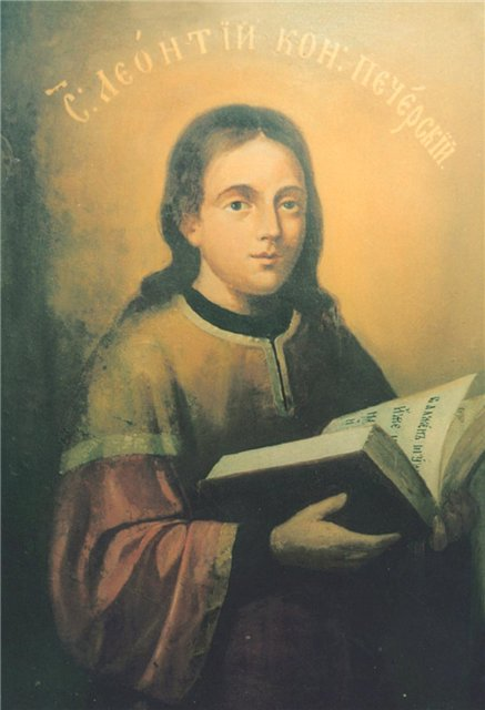 Leontij-Kanonarh-kyevo-pecherskyj